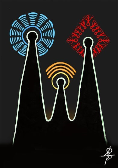 The artwork represents the three dimensions of Slavic cosmology: Prav ("Right"), Yav ("reality", "actuality") and Nav ("probability"). They are in the shape of Svarog ("Heaven", which is Prav, on the left of the drawing), Mat Syra Zemlya ("Damp Mother Earth", which retains the squared rhythms of Heaven constituting Nav, on the right of the drawing), and the Son of Heaven (Svetovid, Perun, Dazhbog, etc., or Svarozhich per se; representing conscious humanity between the two supreme powers, in Yav). For further information about Slavic theo-cosmology, see the caption of Sukharev’s other artwork entitled The Seven Gods.